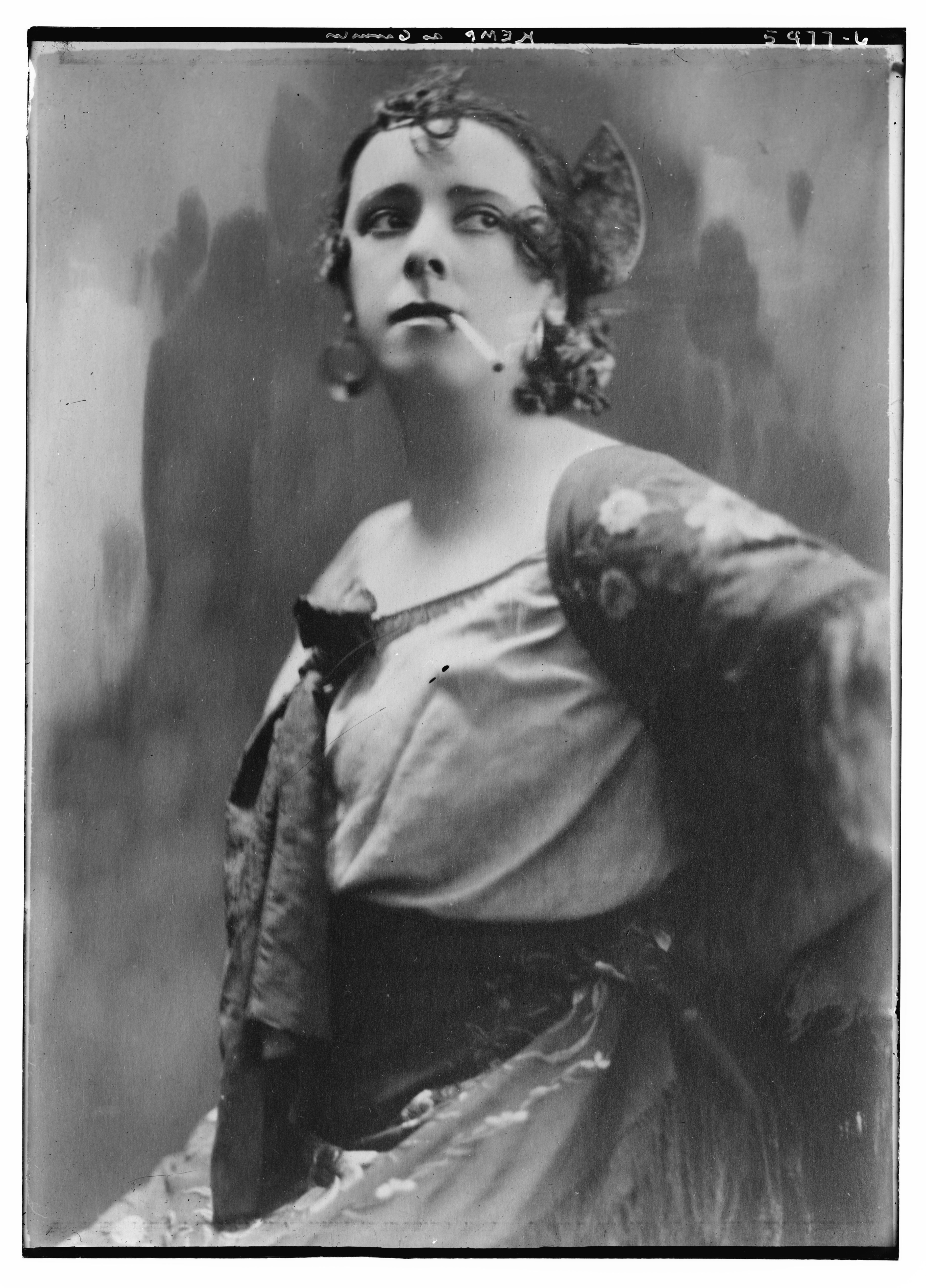 Title: Kemp, "Carmen" Abstract/medium: 1 negative : glass ; 5 x 7 in. or smaller.